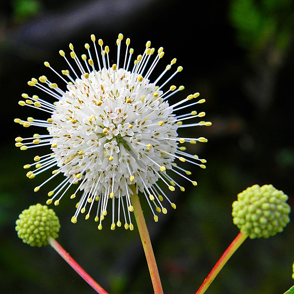 Cephalanthus occidentalis July 2010 Willow marsh at Juno Dunes Natural Area, Palm Beach County, Florida